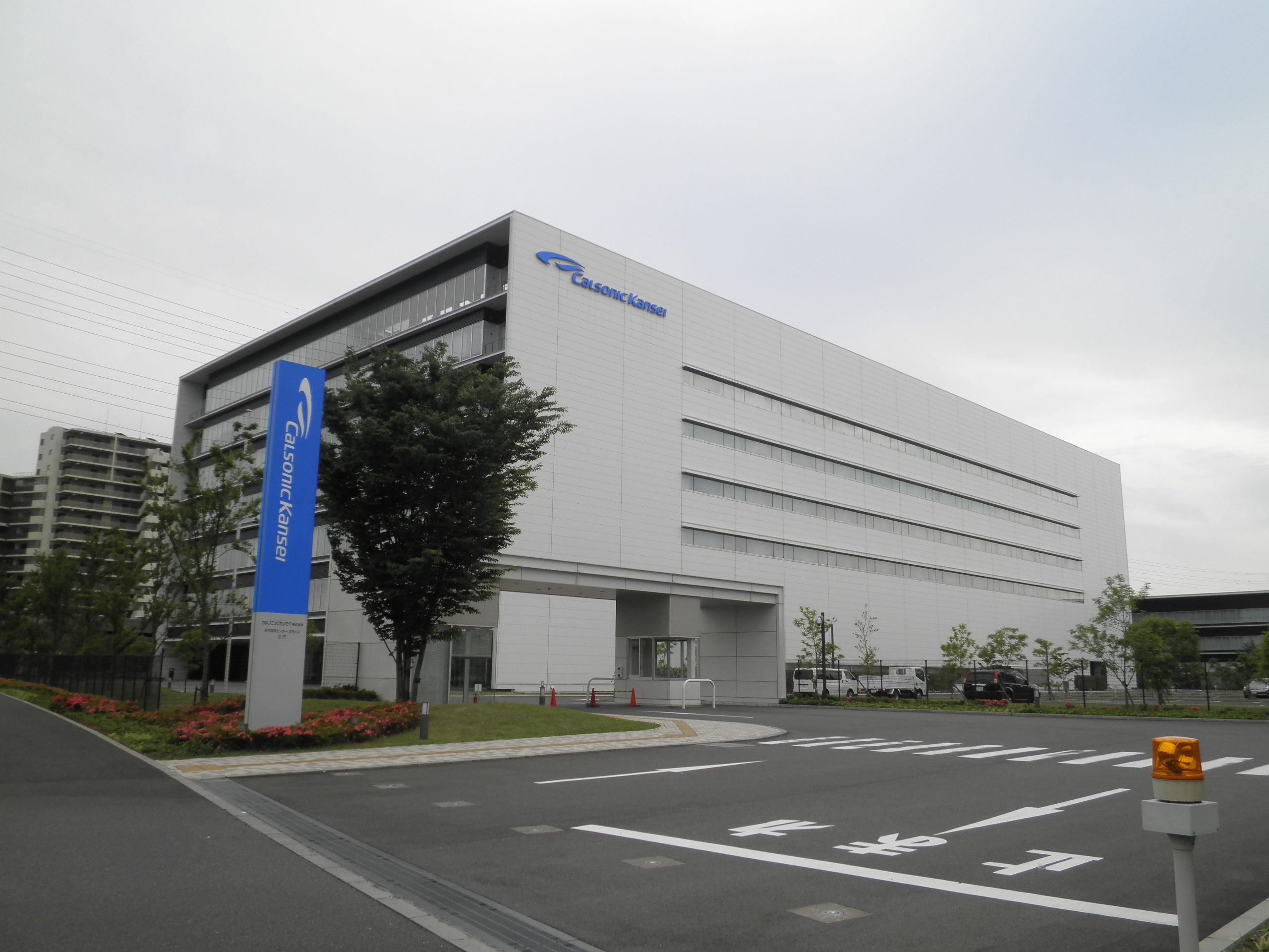 Calsonic Kansei Corporation Headquarters in Saitama, Japan.